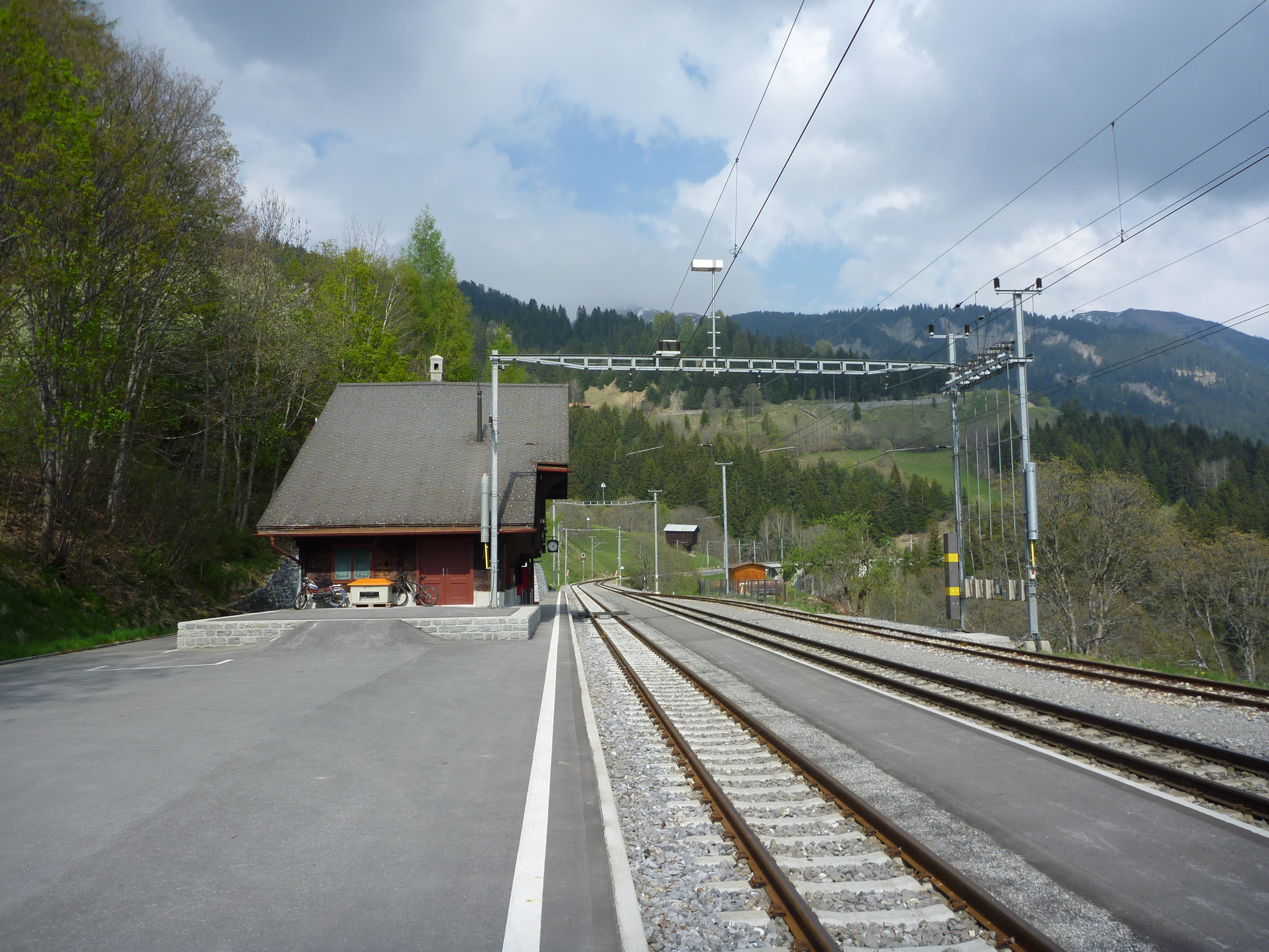 Peist train station, Chur-Arosa railway